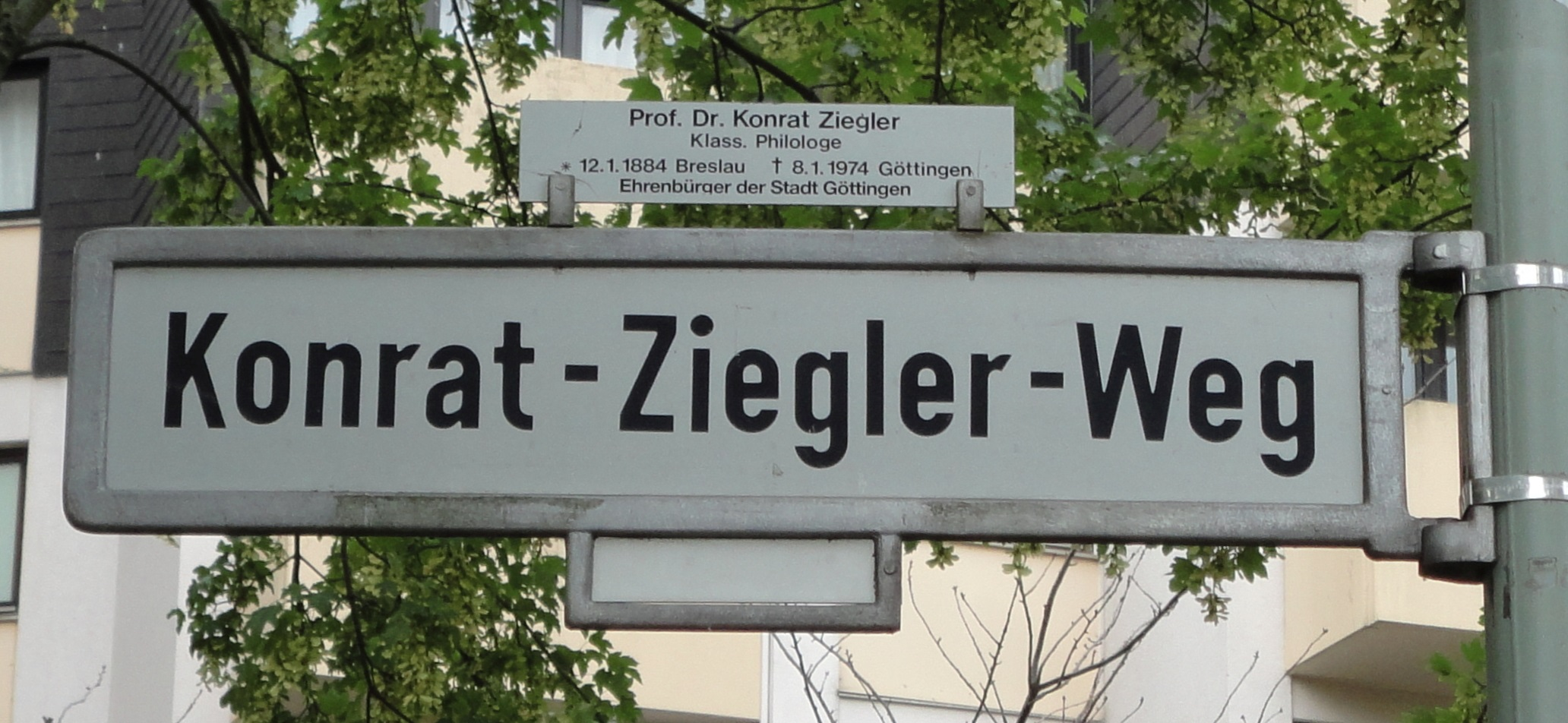 Göttingen-Weende, road sign Konrat-Ziegler-Weg